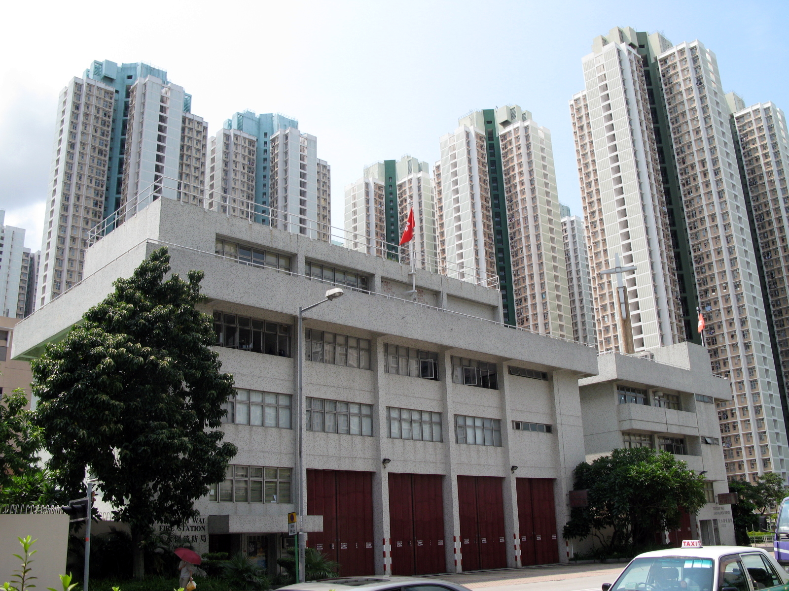 HK Tin Shui Wai Fire Station 天水圍消防局